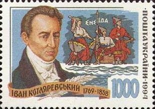 Stamp of Ukraine